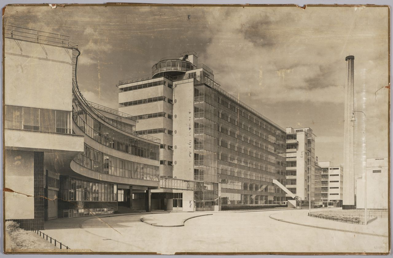 Van Nelle Fabriek, Rotterdam, 1923-1930. Architect: J.A. Brinkman en L.C. van der Vlugt. Fotograaf: onbekend. Collectie NAi / TENT_p2 URL van deze afbeelding: Meer foto's uit deze collectie kunt u bekijken in de Collectiedatabase van het NAi. Niet van alle gebouwen en interieurs zijn alle gegevens bekend. Heeft u meer informatie of weet u het adres van een gebouw? Laat dan een reactie achter (als u ingelogd bent bij Flickr) of stuur een mailtje naar: Al deze foto's zijn gemaakt in de eerste helft van de twintigste eeuw. Wij zijn benieuwd hoe deze gebouwen er vandaag de dag uitzien. Heeft u recente foto's van deze gebouwen of locaties, voeg ze dan toe als commentaar. U kunt een eigen Flickr-foto toevoegen door de URL ervan tussen vierkante haken in het commentaarveld te plakken. Als uw foto's een Creative Commons licentie hebben, nemen we ze bovendien graag op in de NAi Collectiedatabase. Van Nelle Factory, Rotterdam, 1923-1930. Architect: J.A. Brinkman and L.C. van der Vlugt. Photographer: unknown. NAI Collection / TENT_p2 Persistent URL: For more photographs from this collection, please visit the NAI Collection Database You can help us gain more knowledge on the content of our collection by adding a comment with information. If you do not wish to log in, you can write an e-mail to: All these pictures are taken in the first half of the twentieth century. We are curious to learn how these buildings look like today. If you have recently taken photographs of these buildings or locations, please add them to your comment. If you'd like to include a Flickr photo, simply copy and paste its URL between square brackets in the commentary-field. Photos with a Creative Commons licence may be used to illustrate the NAi Collection Database.